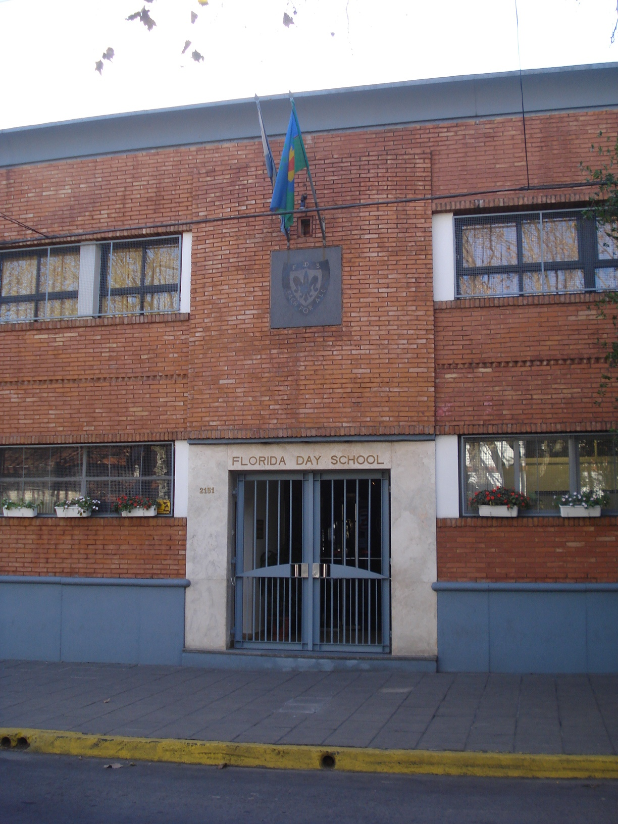 Front of the Florida Day School secondary in Florida, Vicente López, Buenos Aires province, Argentina.